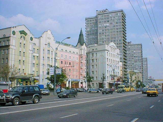 The New Arbat Street, Moscow